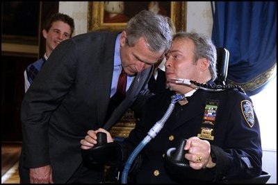 President George W. Bush speaks with NYPD Officer Steve McDonald in the Blue Room April 10, 2002.